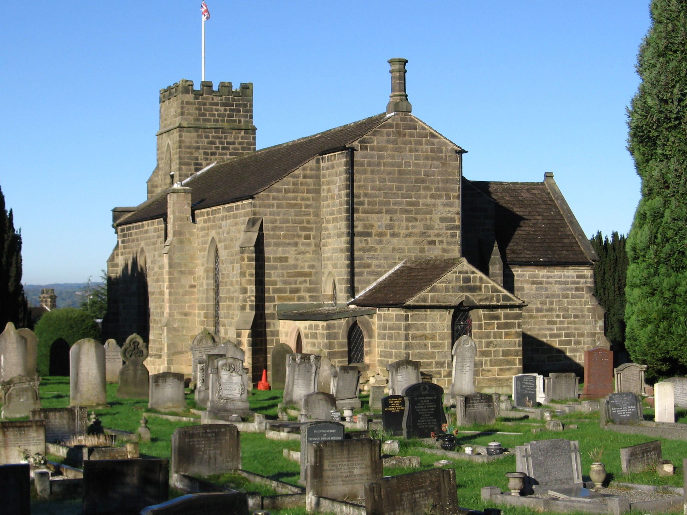 Holy Trinity parish church, Tansley, Derbyshire, seen from the southeast